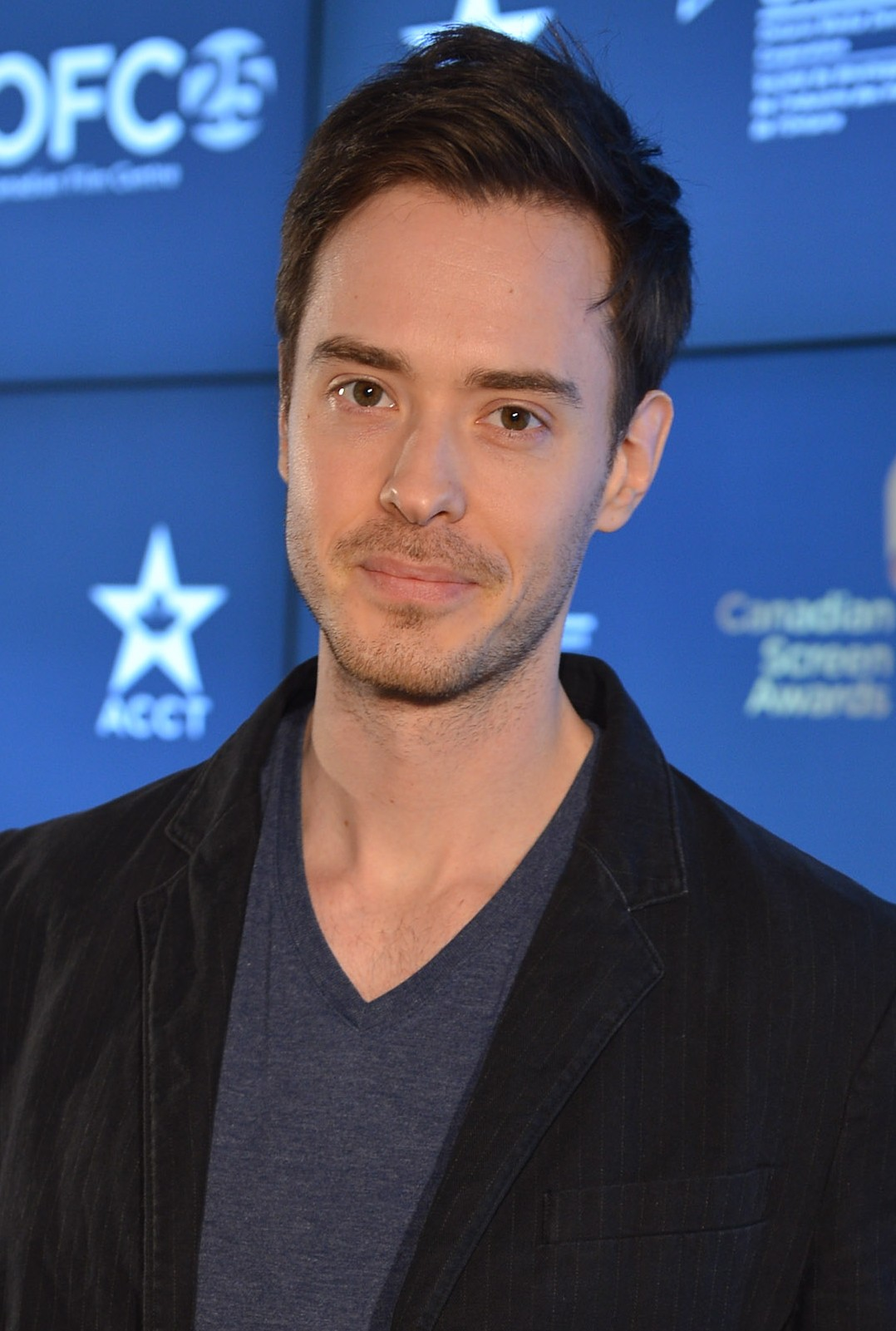 On March 1, 2013, the CFC, in support of the The Academy of Canadian Cinema & Television (Academy), celebrated Canadian talent at the Canadian Screen Awards Nominee Reception. Academy's new Canadian Screen Awards recognize excellence in film, television and digital media productions. This marked the inaugural year for the Canadian Screen Awards.